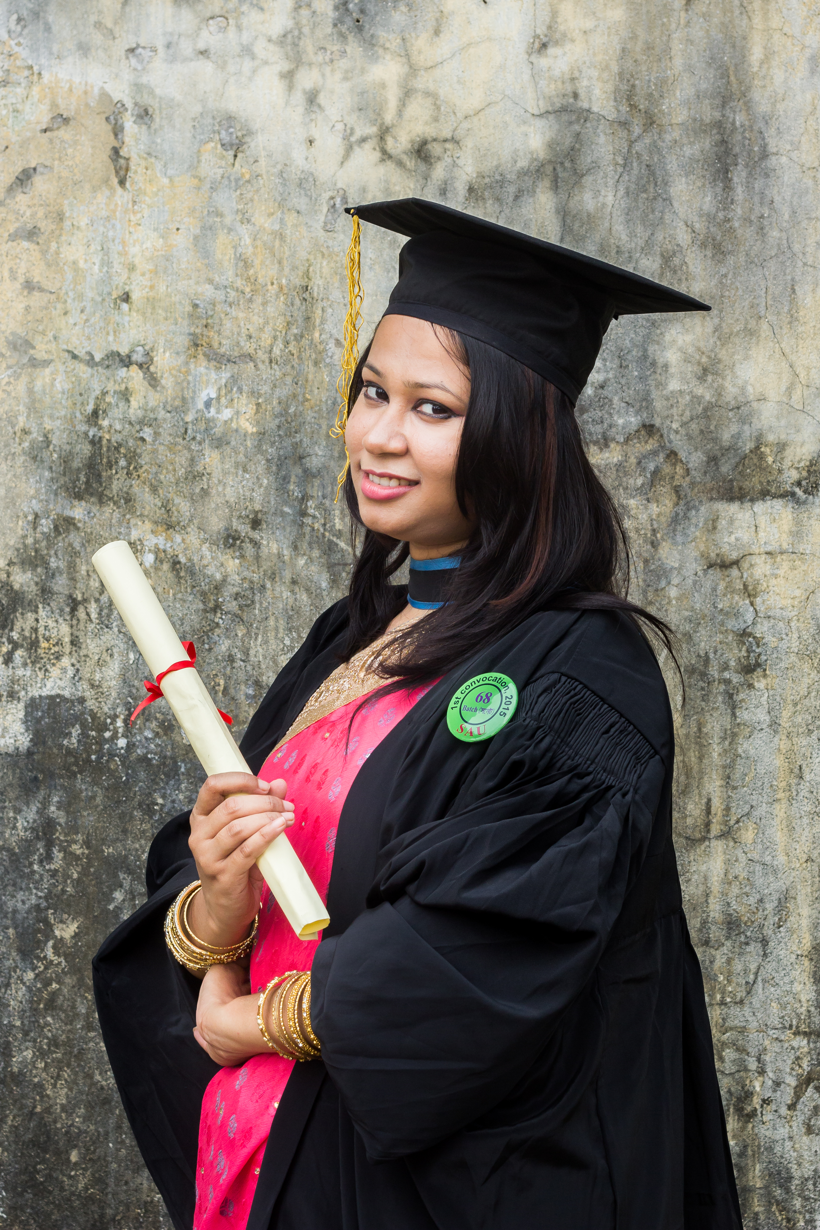 Convocation, Sher-e-Bangla Agricultural University